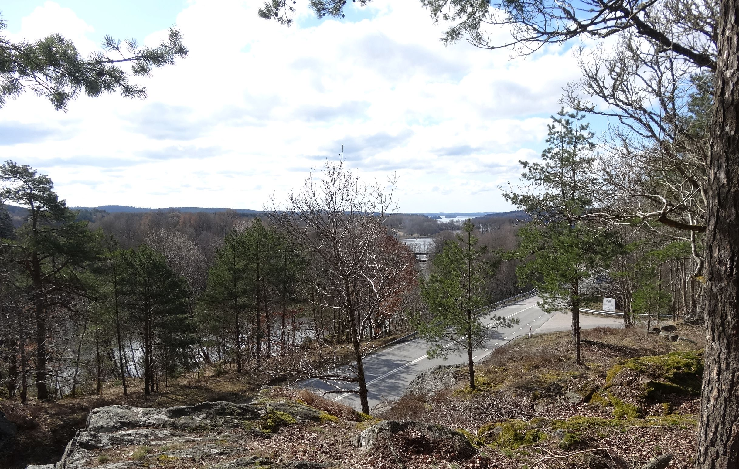 The scenery at Brobacka mountain pass, between the lakes Anten to the left (outside the picture), and Mjörn at the horizon. Västergötland, Sweden.